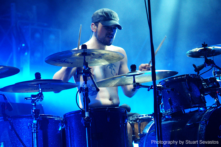 More photos from Karnivool's Metro City show.